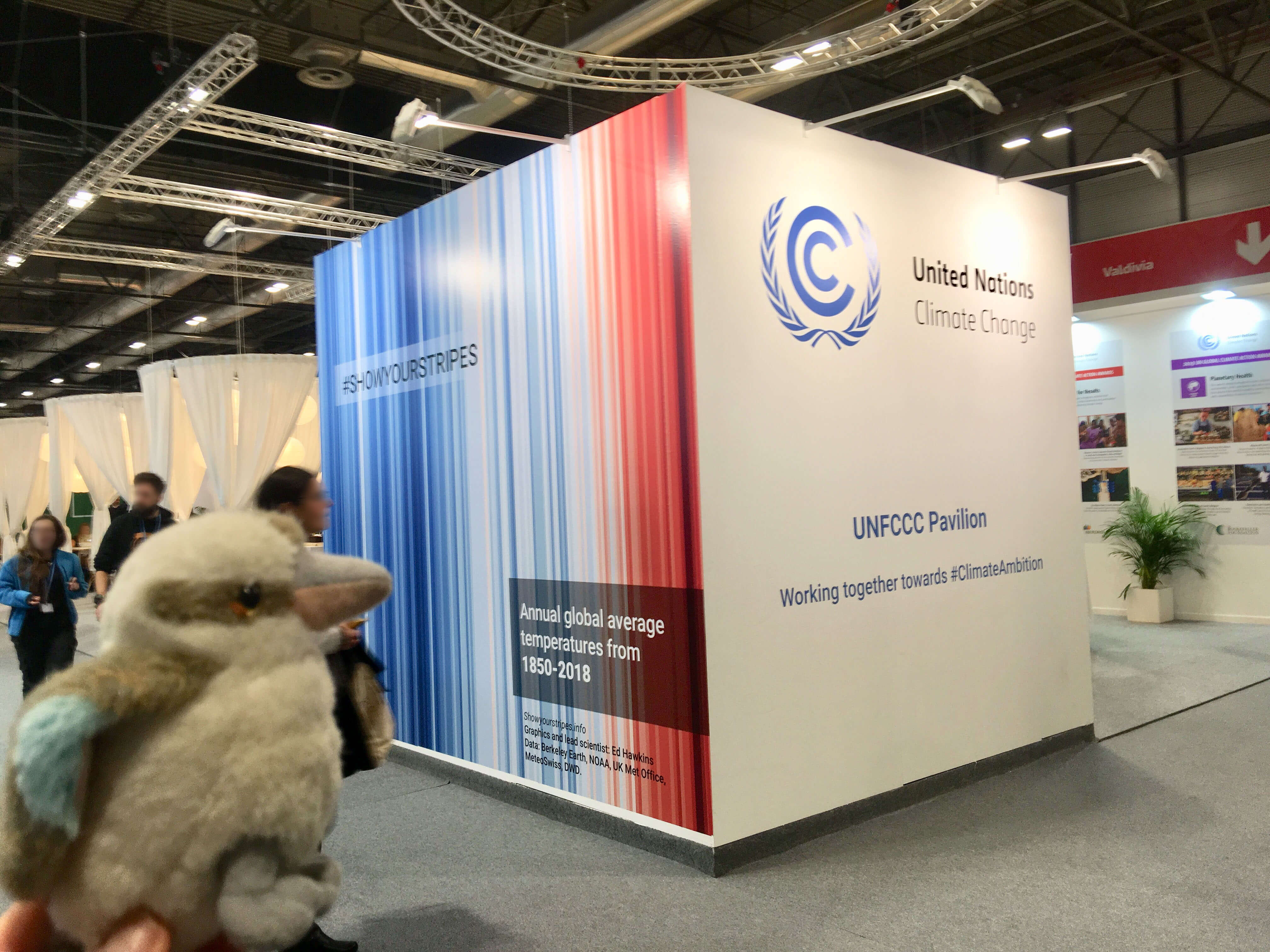 Photo of warming stripes at COP25 (2019 United Nations Climate Change Conference). Peoples' faces have been digitally blurred by uploader.